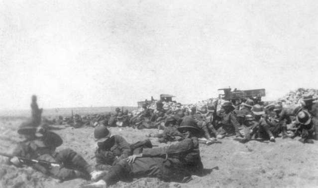 Members of the Australian 59th Battalion near the Suez Canal, Egypt, April 1916, prior to their transfer to the Western Front